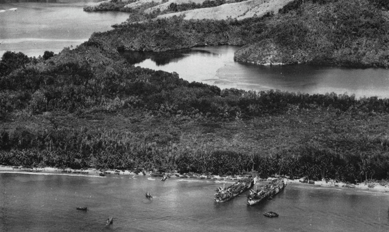 U.S. Navy tank landing ships during the landings at Hollandia, New Guinea, 22 April 1944.